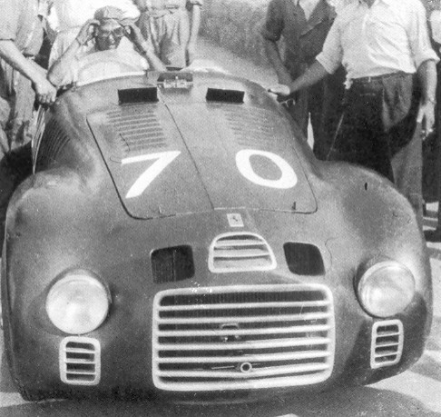 Tazio Nuvolari in a Ferrari 125 S #70 on Circuito di Montenero in Livorno on August 24, 1947. He did not finish (DNF).[1] This is chassis #01C.[2]